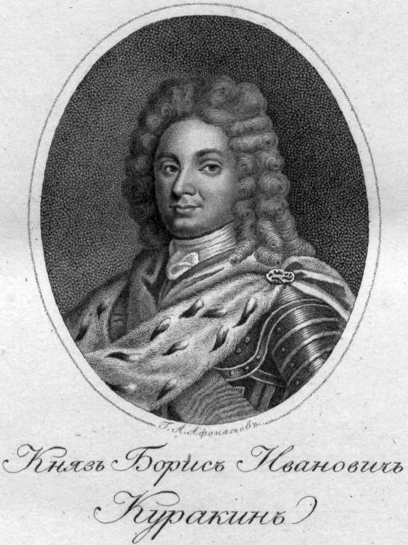 Boris Kurakin